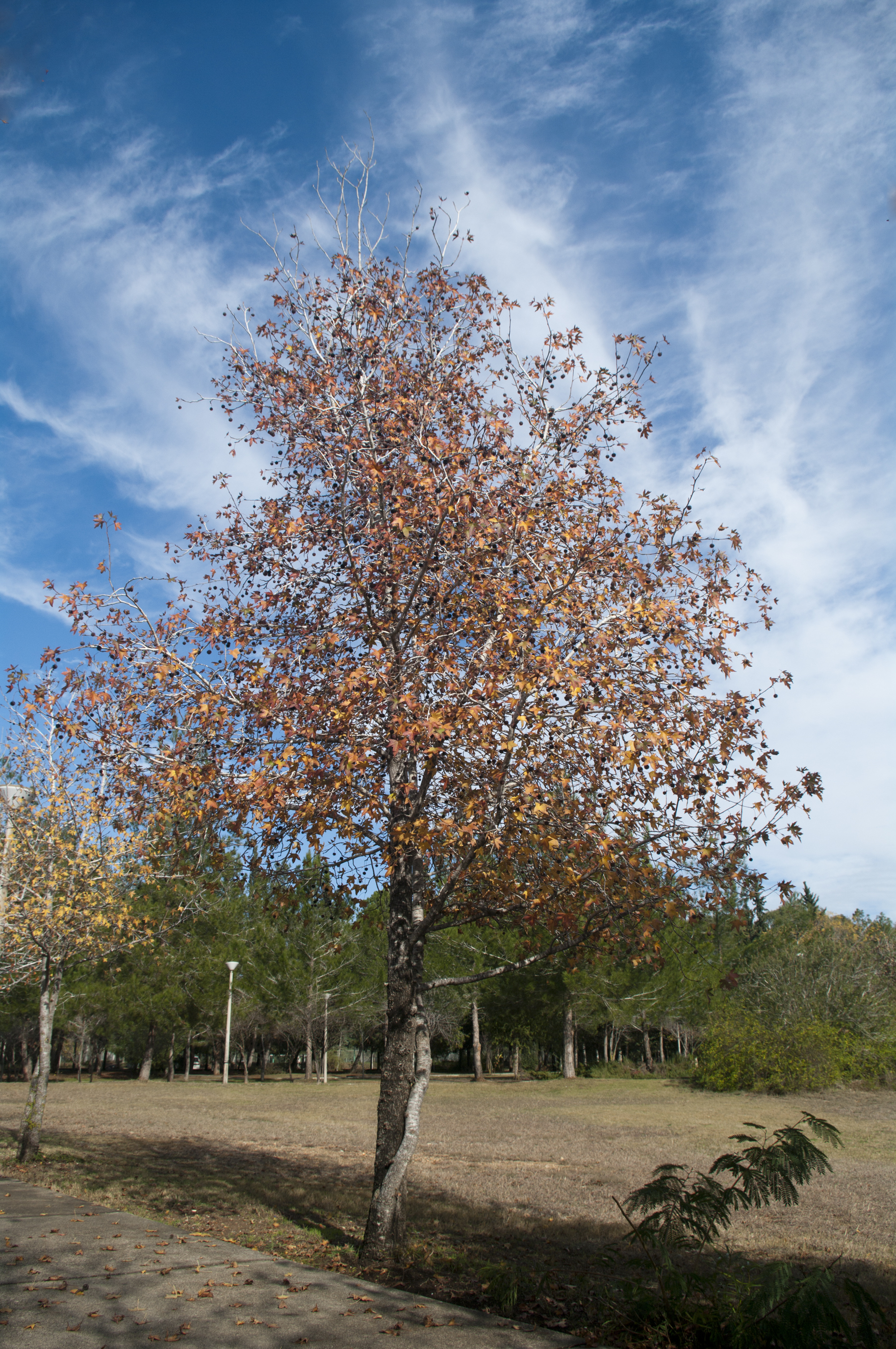 Tree of Turkish sweetgum (Liquidambar orientalis) at Çukurova Unversity Campus in winter.